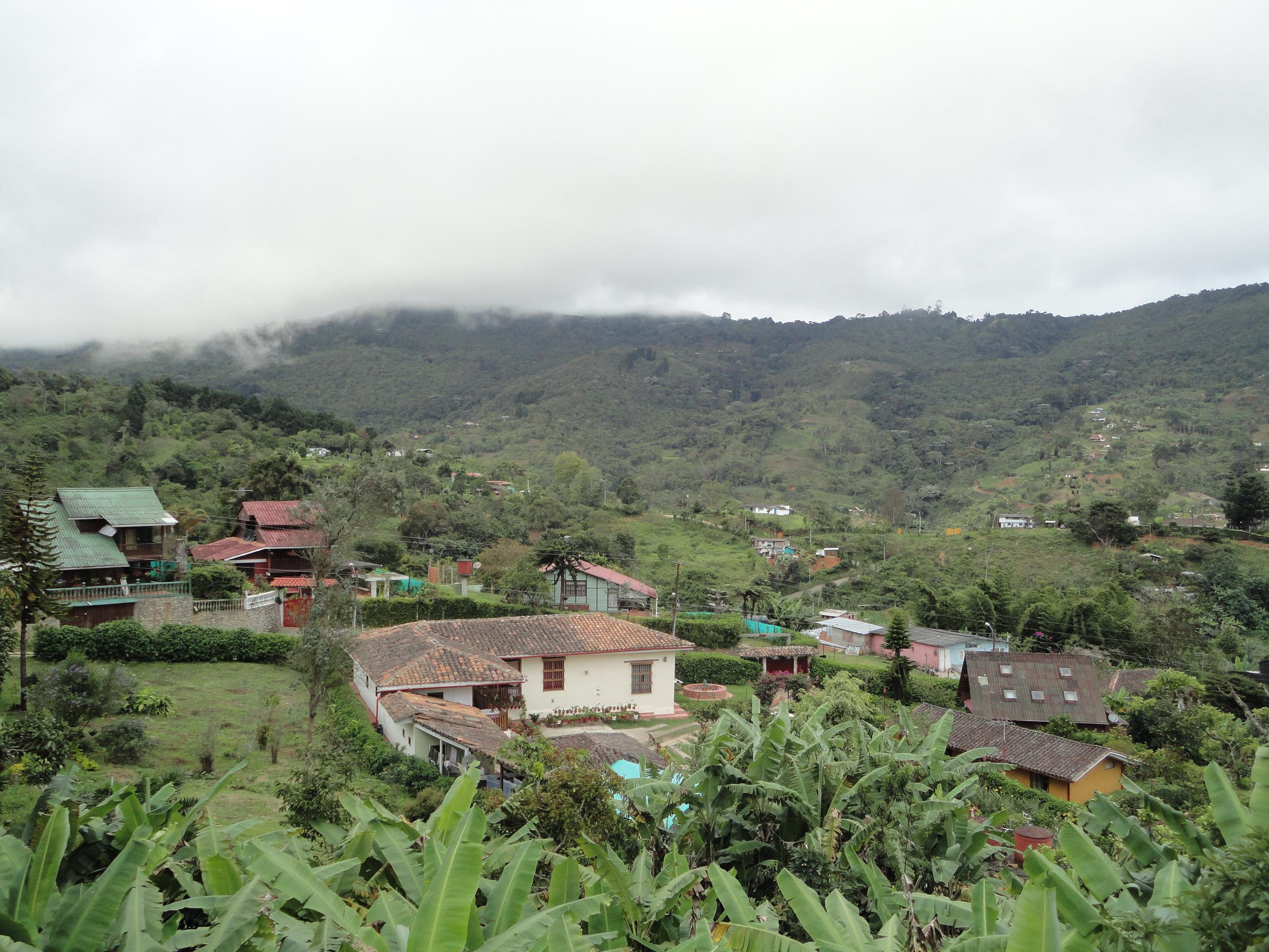 La Elvira Cali-Colombia